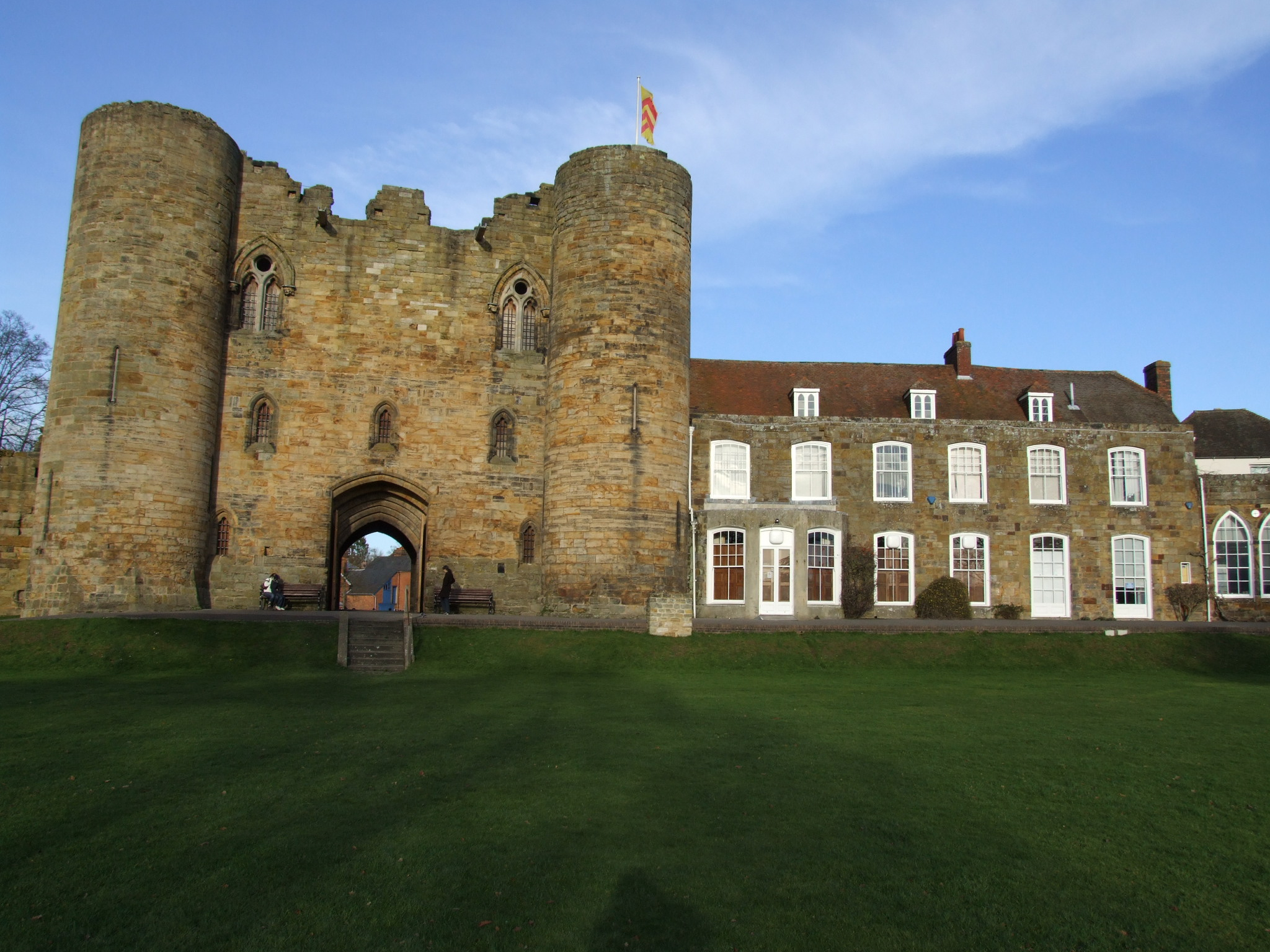 Tonbridge in Kent lies on the River Medway. The main channel passes under Big Bridge.Three channels have been culverted, the Botany Stream remains. Tonbridge is protected by Tonbridge Castle The gatehouse and mansion.